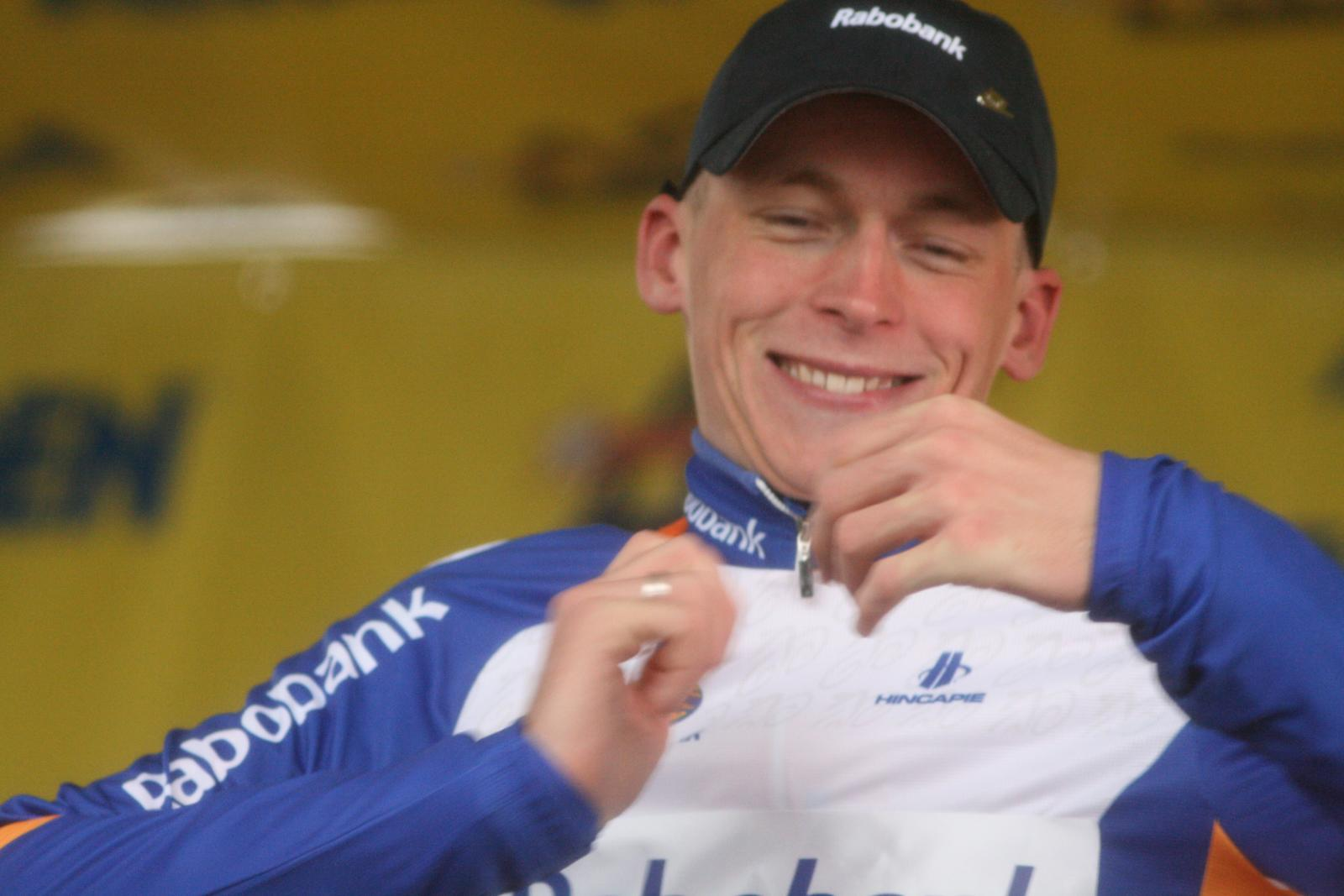 Tour of California 2009, stage 1. Podium